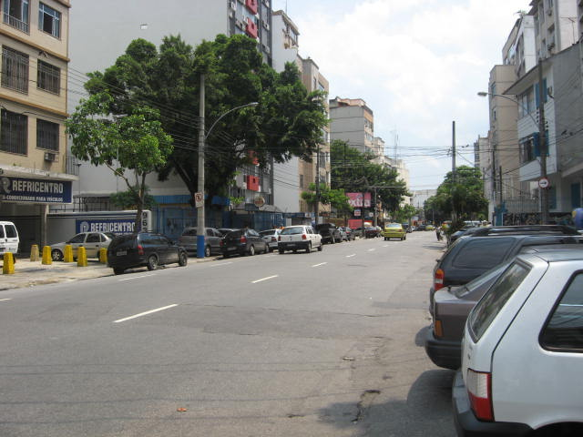 Mariz e Barros street, Rio de Janeiro city, Brazil.